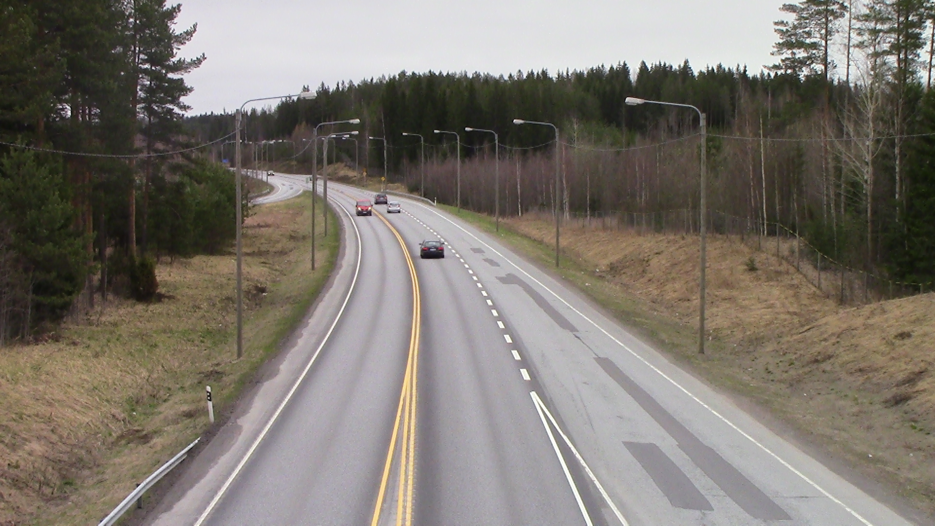 Finnish national road 5 at Kuortti in Pertunmaa. The picture's been taken from the bridge of Kuortti's interchange.